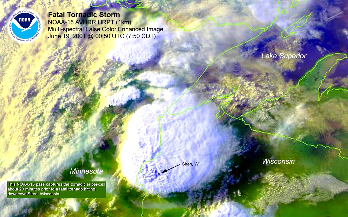 NOAA false-color image of a tornadic supercell approaching Siren, Wisconsin, USA on June 19, 2001.